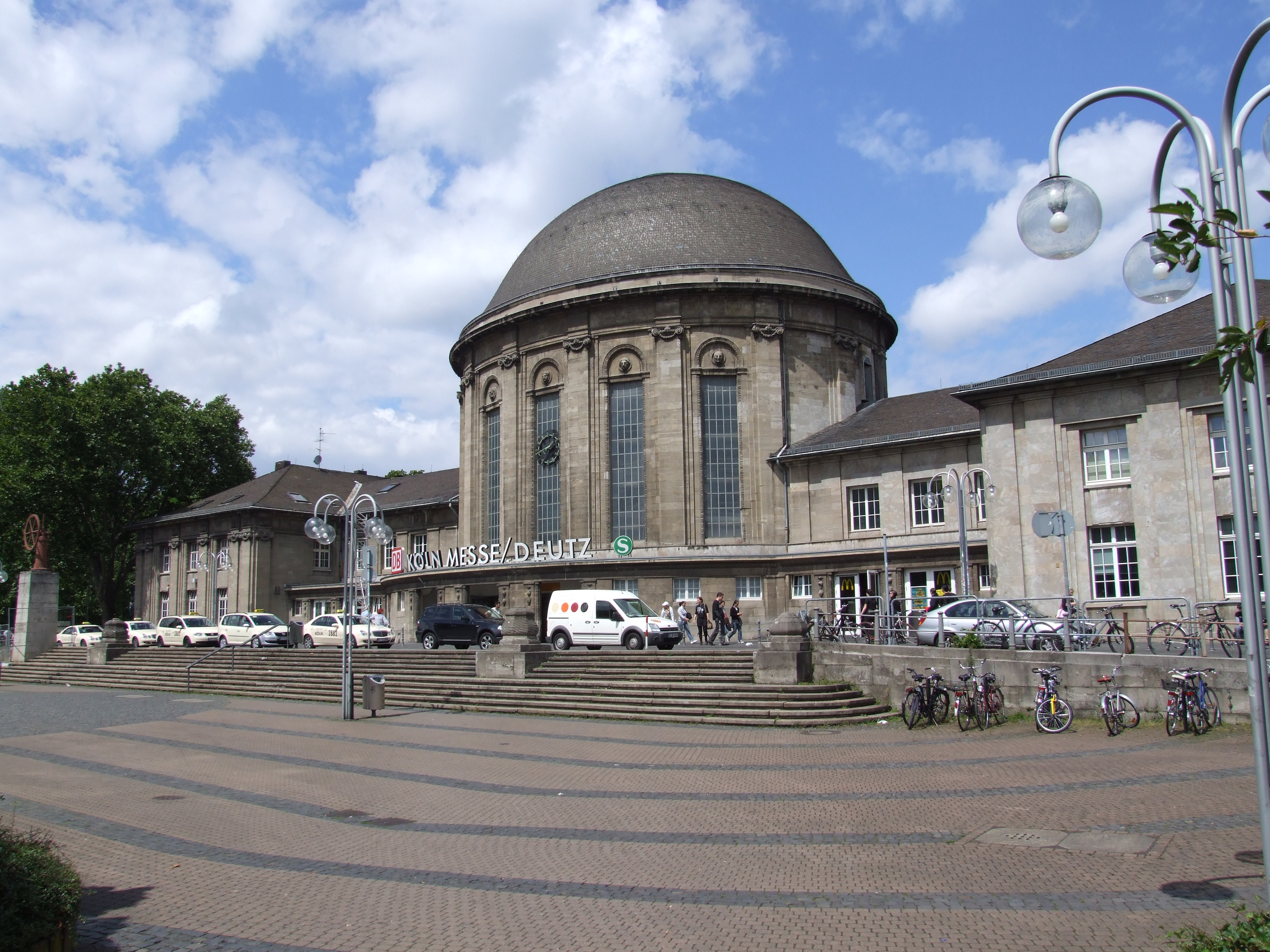 Deutz, Train Station